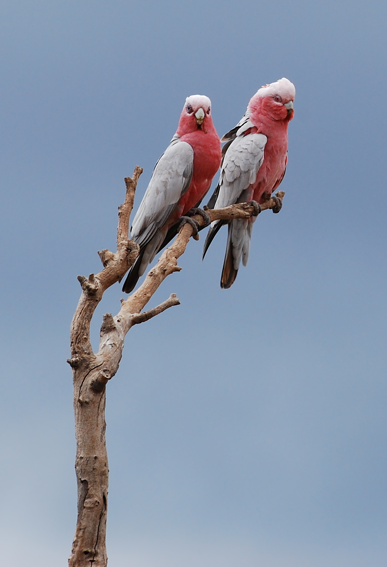 Mated pair of Galahs (Eolophus roseicapilla) perched on a dead tree - near Flinders Ranges National Park, South Australia